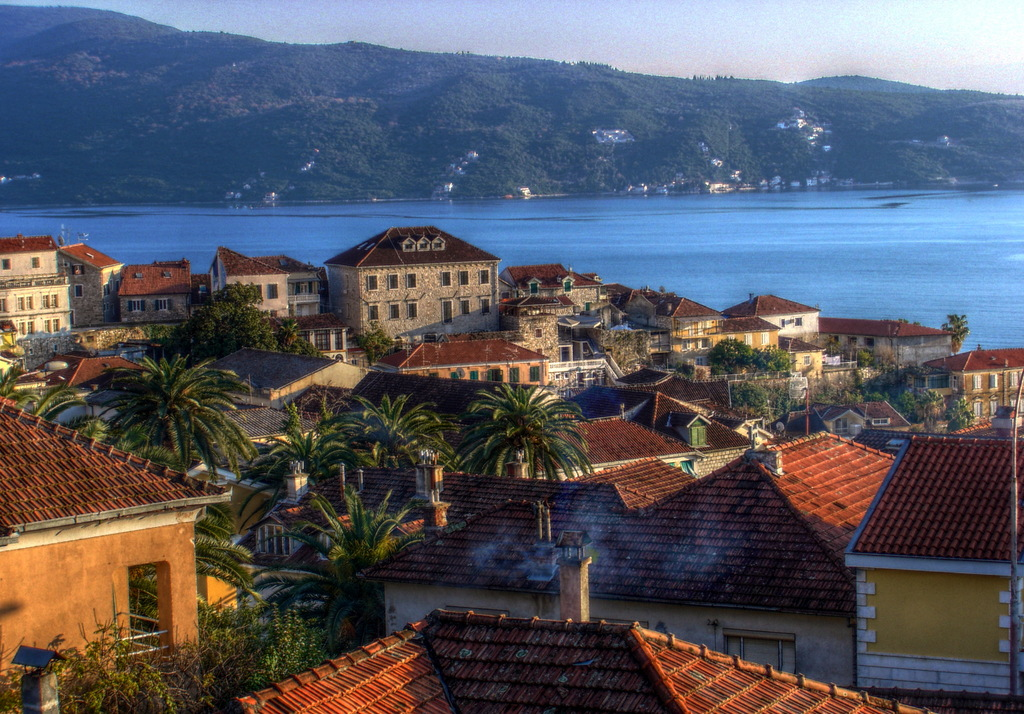 Herceg Novi at winter (HDR).